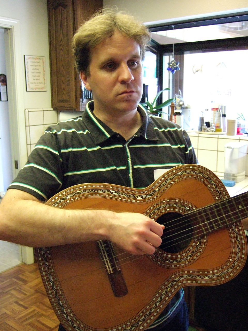 Video game composer Matt Uelmen, who composed the music for Diablo, Diablo II, et Diablo II: Lord of Destruction.